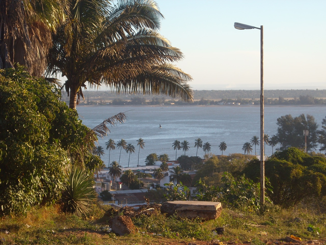 Maputo Bay. Photo taken from Café Acácia open terrace.